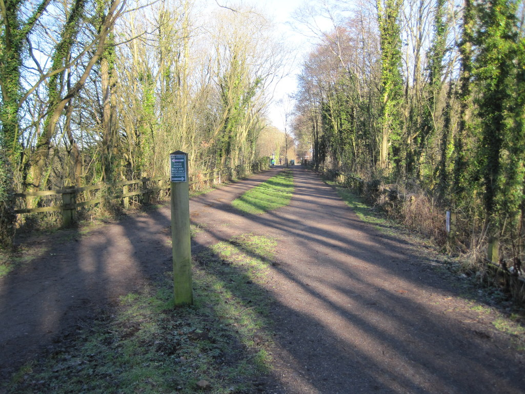 Middlewood Higher railway station (former site)Opened in 1879 by the Macclesfield, Bollington & Marple Railway. View north towards High Lane and Marple. The still extant Middlewood (Low Level) station crosses left to right under the line/path, in the distance.